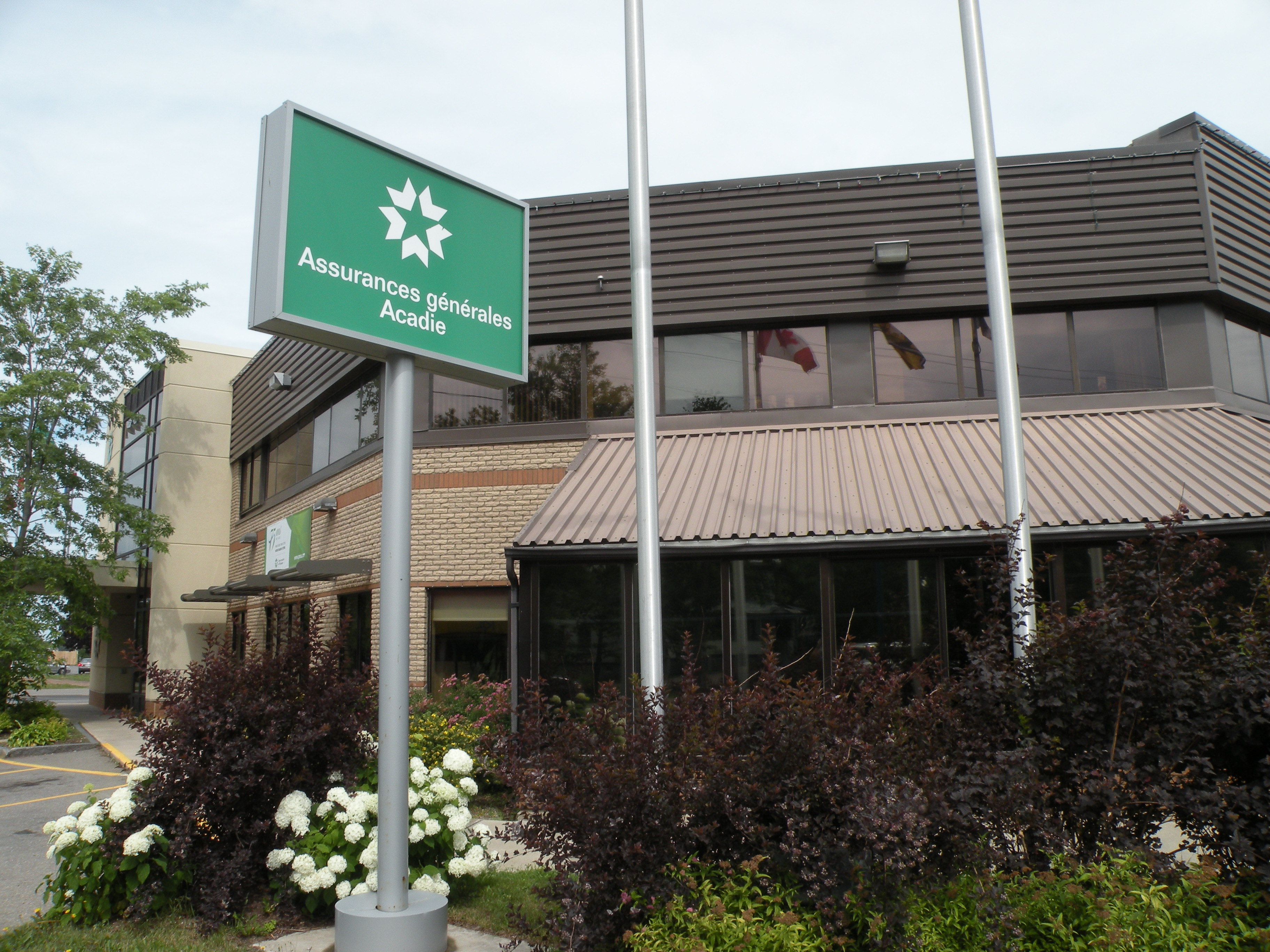 Credit union in Shippagan, New Brunswick, Canada